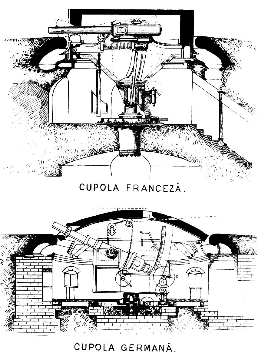 The Mougin ("French") and Gruson ("German") gun turrets, comparative drawings for the Romanian general public. The illustration accompanies news about the experiment on Cotroceni Hill, Bucharest, during which both rival designs were tested with live ammunition and equal fire power.